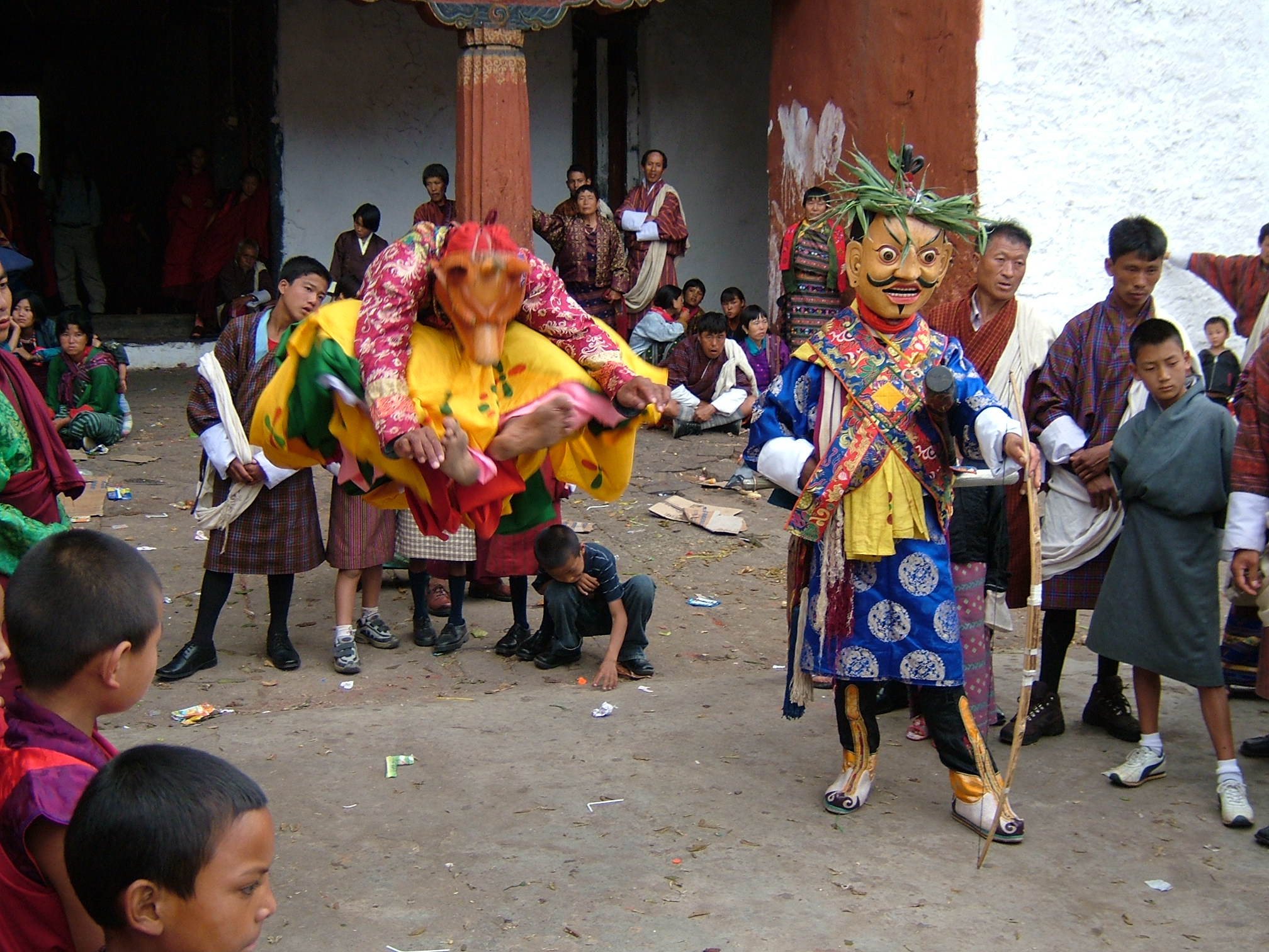 Flickr: Link to image page. Name on flickr: "masked dancers, wangdue phodrang tsechu" Author: sparkig License: CC-BY-SA 2.0